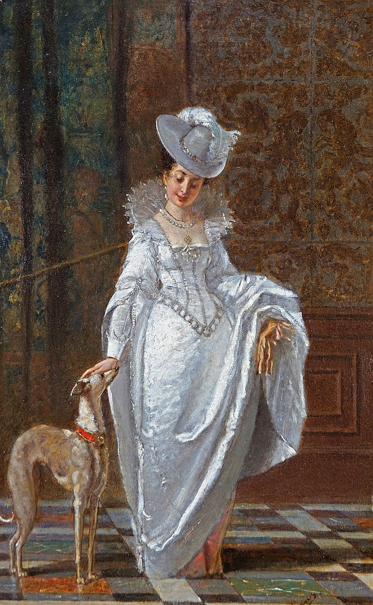 Lady with a greyhound